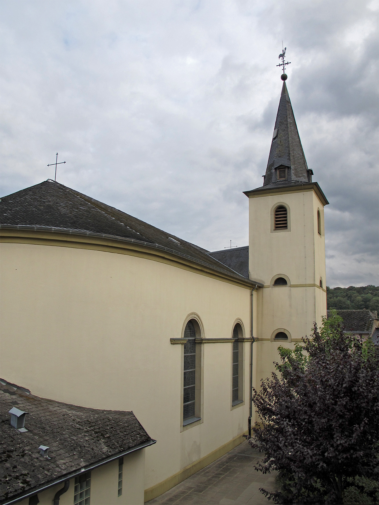 Church of Stadtbredimus, Luxembourg